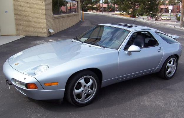 1995 Porsche 928 GTS One of only 77 examples produced for the US market in the final year of production. Photo shot in Paramus, NJ.